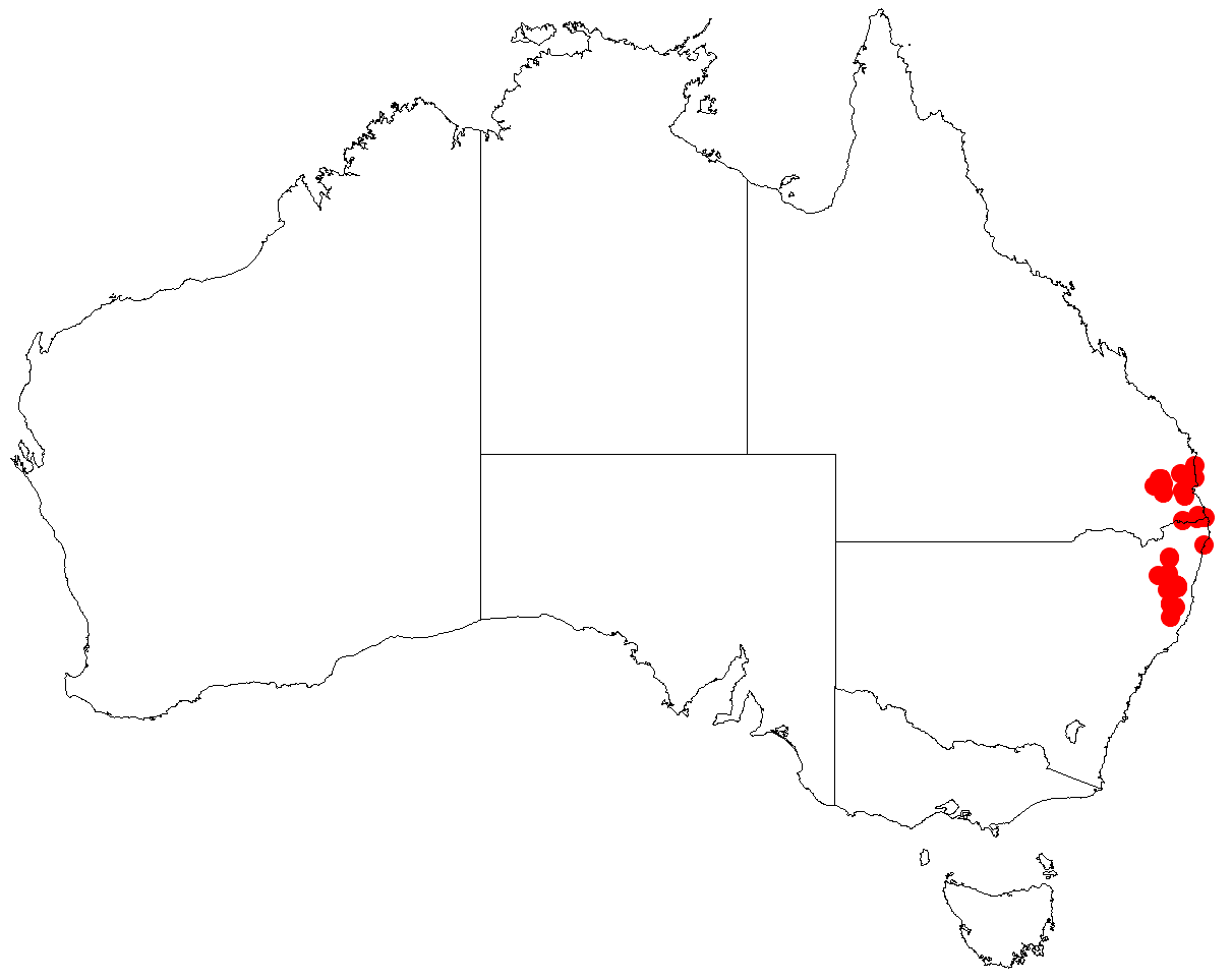 Billardiera rubens occurrence data from Australasian Virtual Herbarium downloaded 5 July 2018